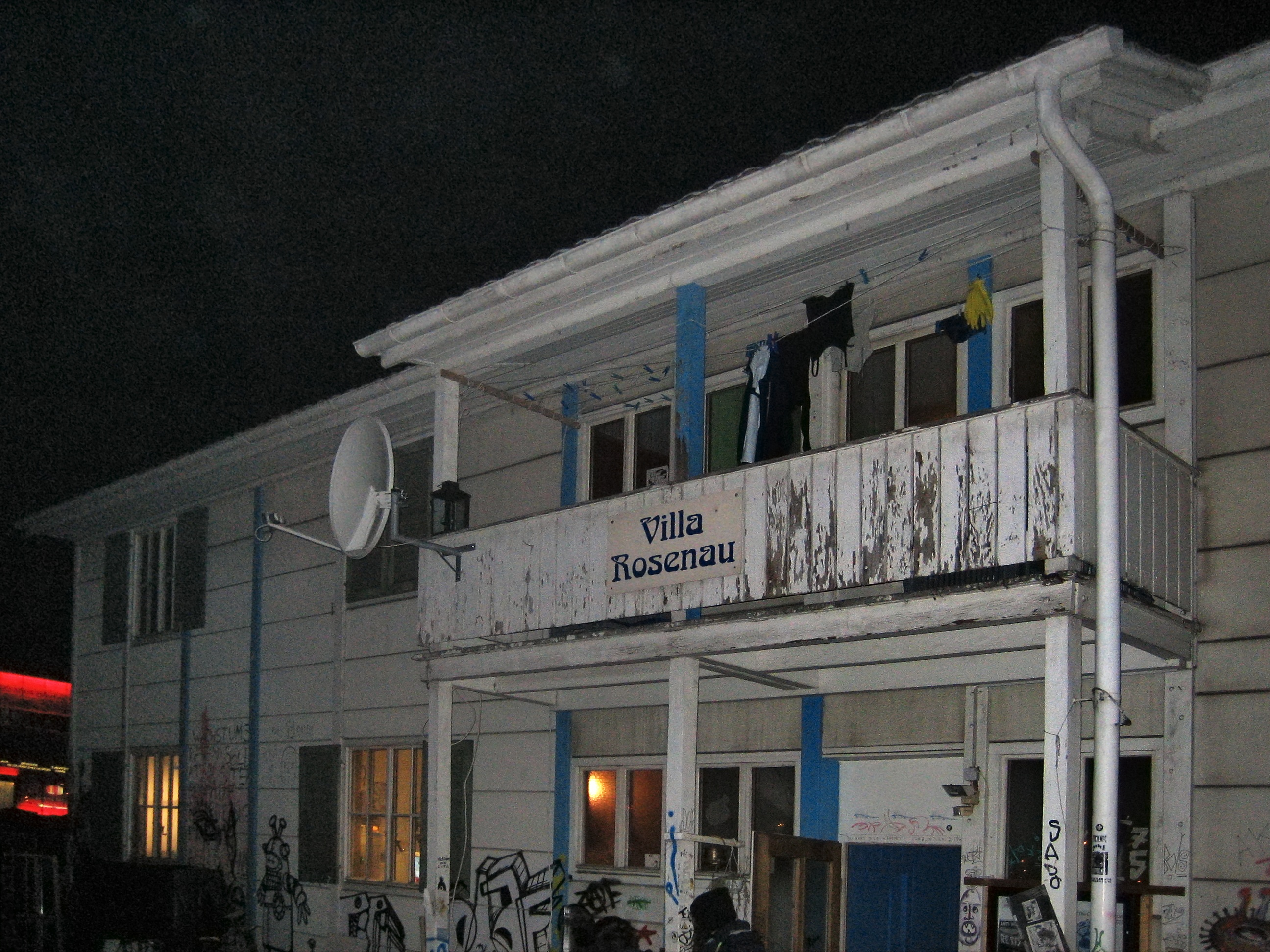 Villa Rosenau, squatted building in Basel, Switzerland.